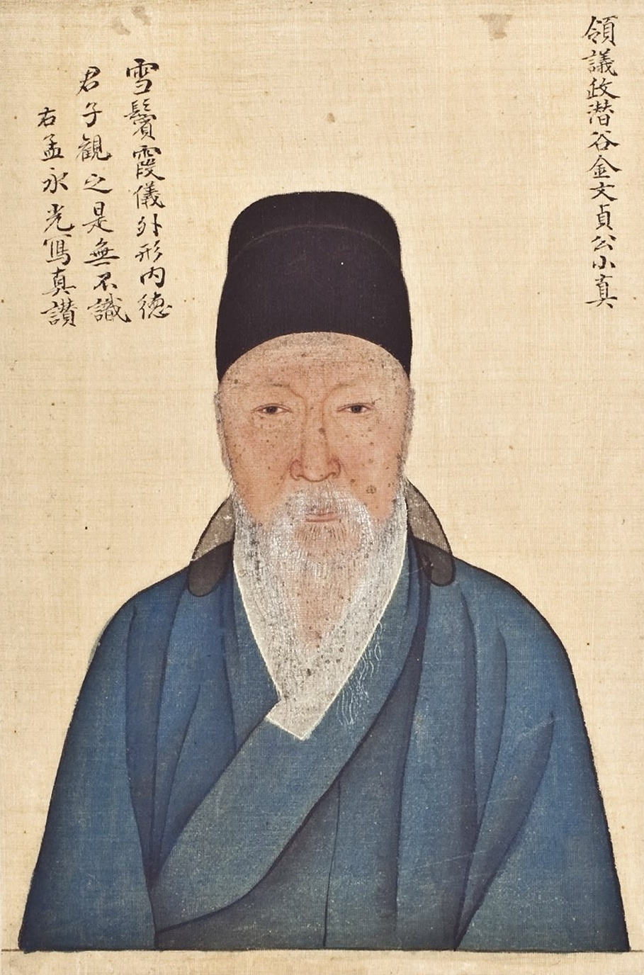 Portrait of Kim Yuk (1570 - 1658) an early Silhak philosopher of Joseon Dynasty, painted in the 17th century Joseon.